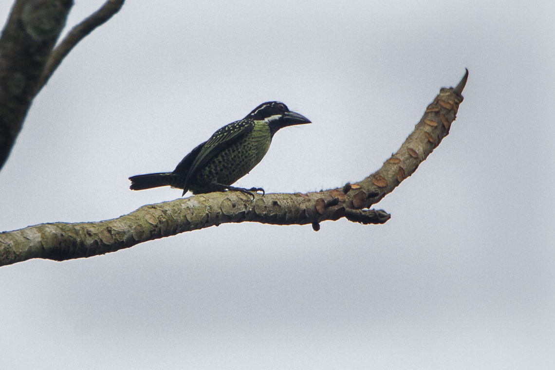 An Hairy-breasted Barbet (Tricholaema hirsuta) in the Bobiri Forst Reserve (Ghana)